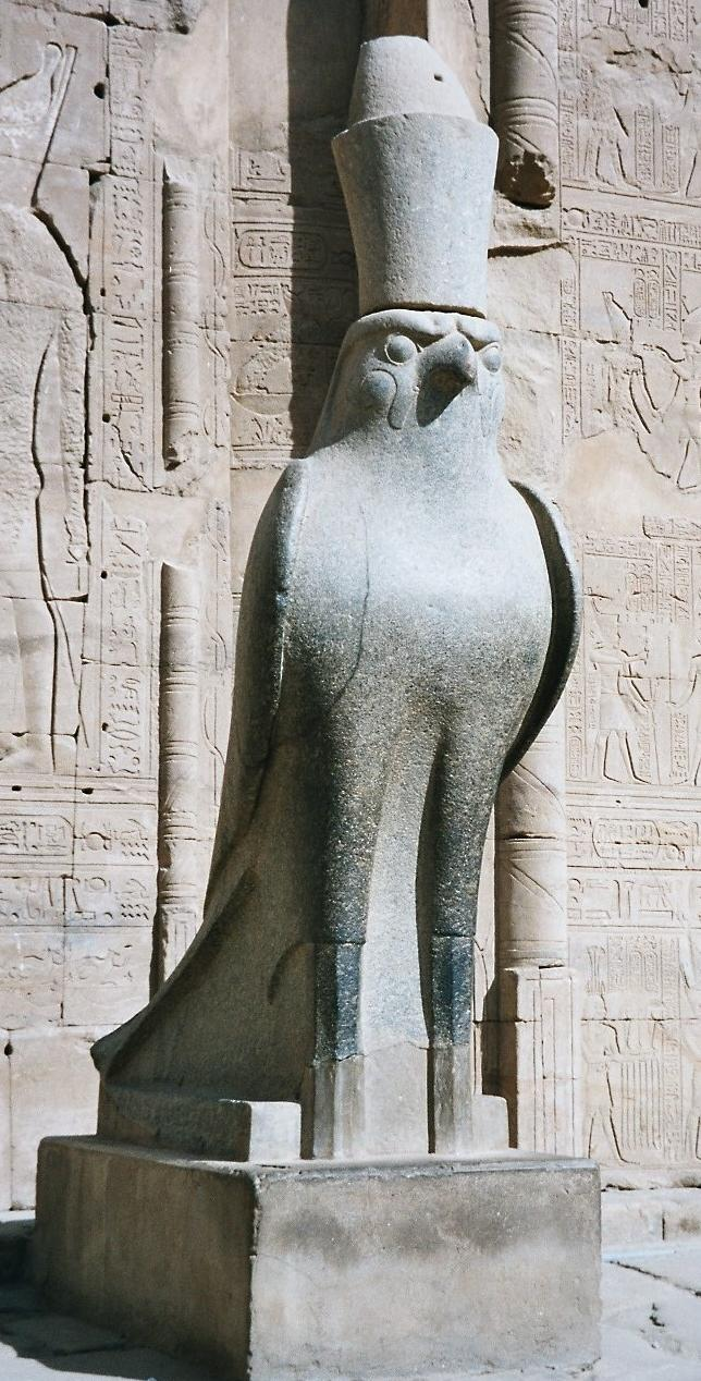 Statue of Horus, Edfu Temple, Egypt